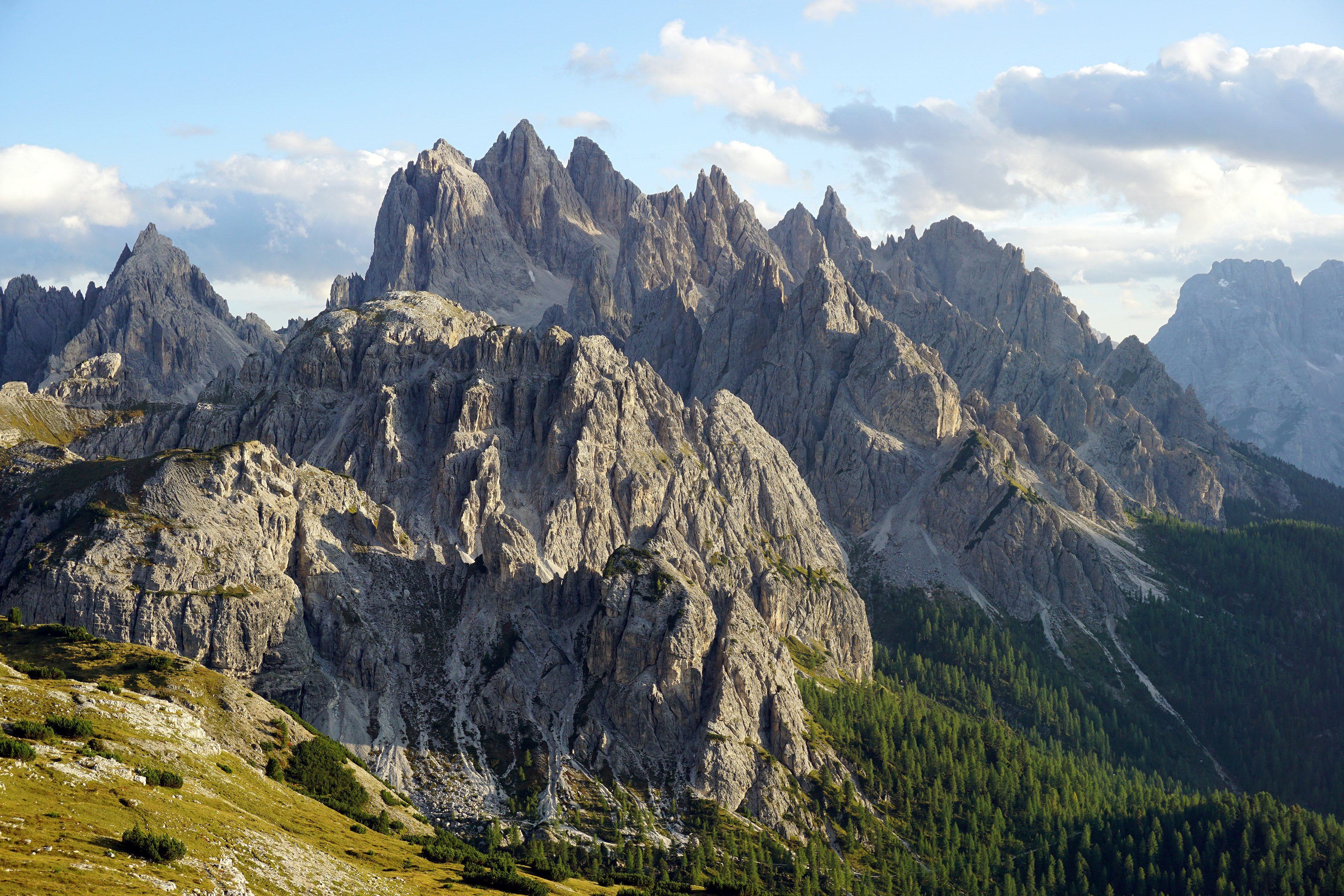 Cadini di Misurina seen from Lavaredo.